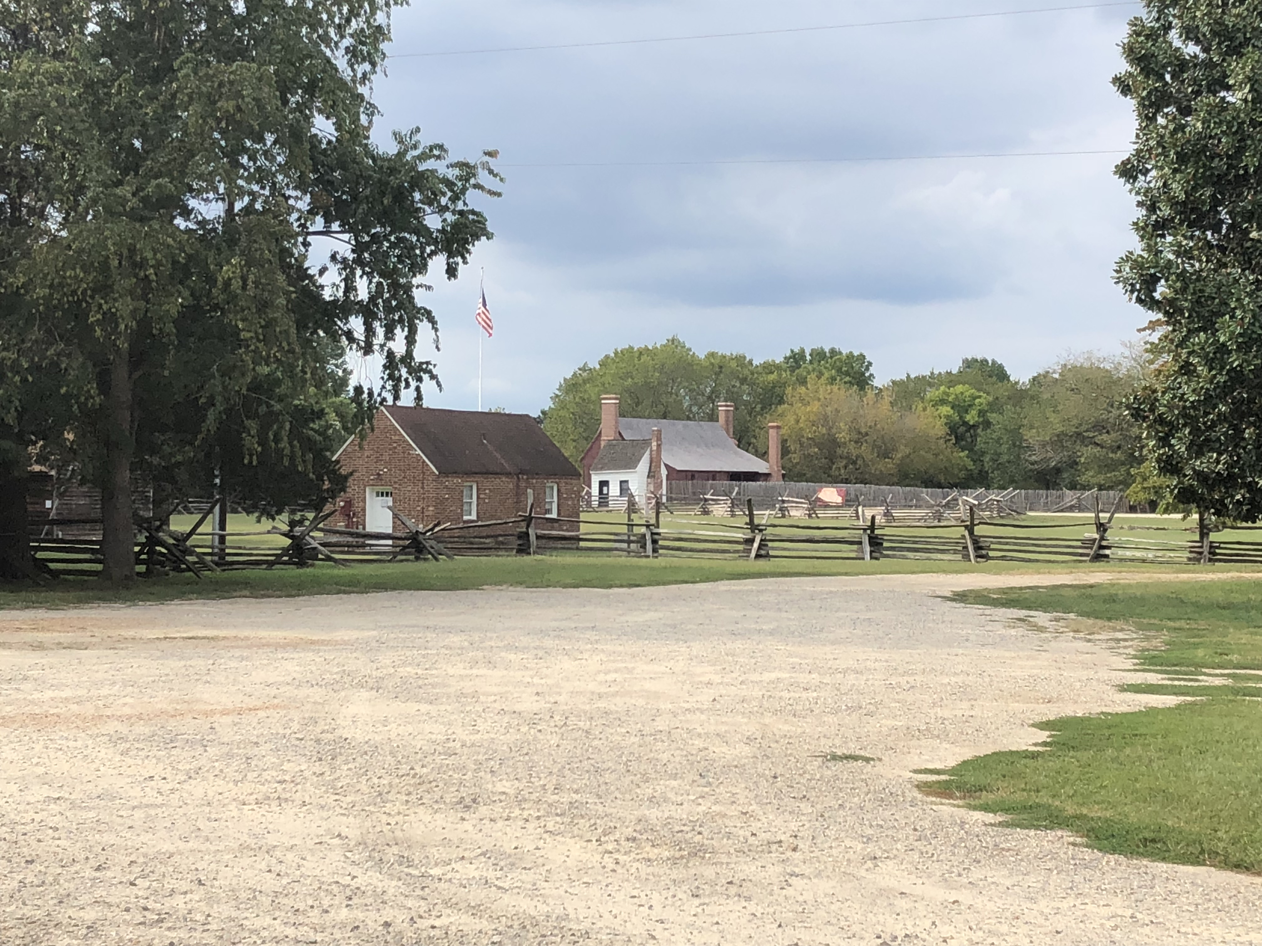 A photograph of the grounds of Ferry Farm, George Washington's Boyhood home in Stafford County, Virginia, including a replica of the original Washington home in the center of the image behind several other buildings and replica colonial fencing.